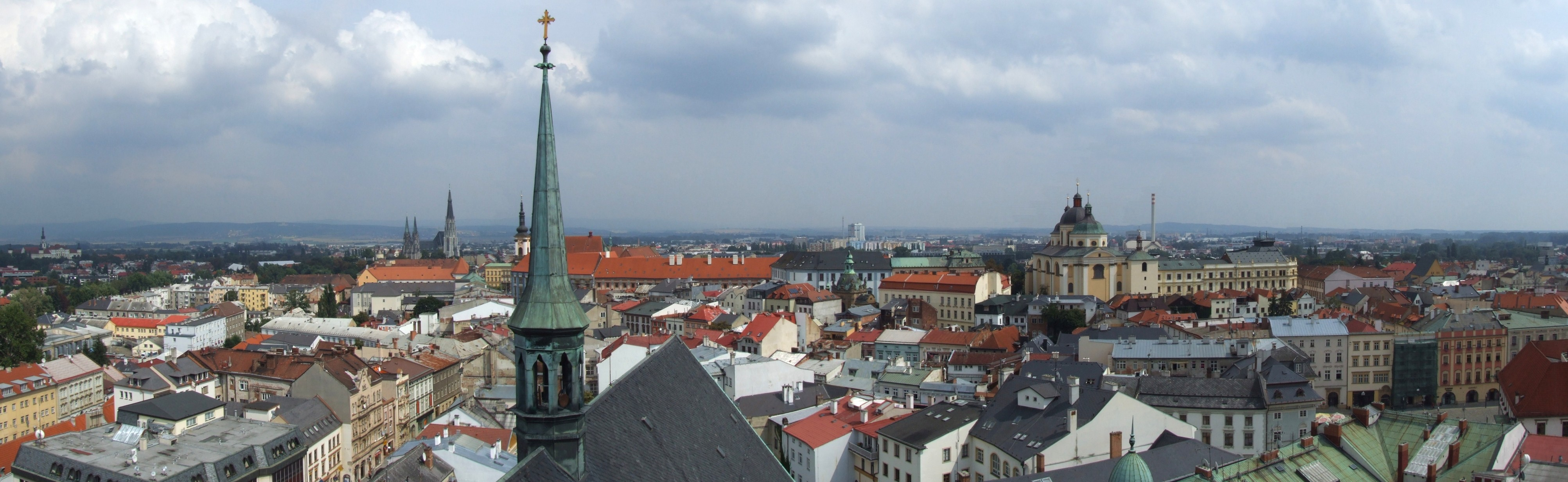 Olomouc (Olmütz) - panorama from Saint Maurice Church